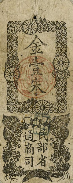 A banknote issued by the civil department of the Japanese Empire.